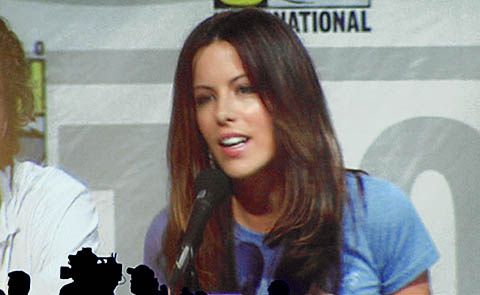 Kate Beckinsale talks about Underworld: Evolution at Comic Con July, 2005.